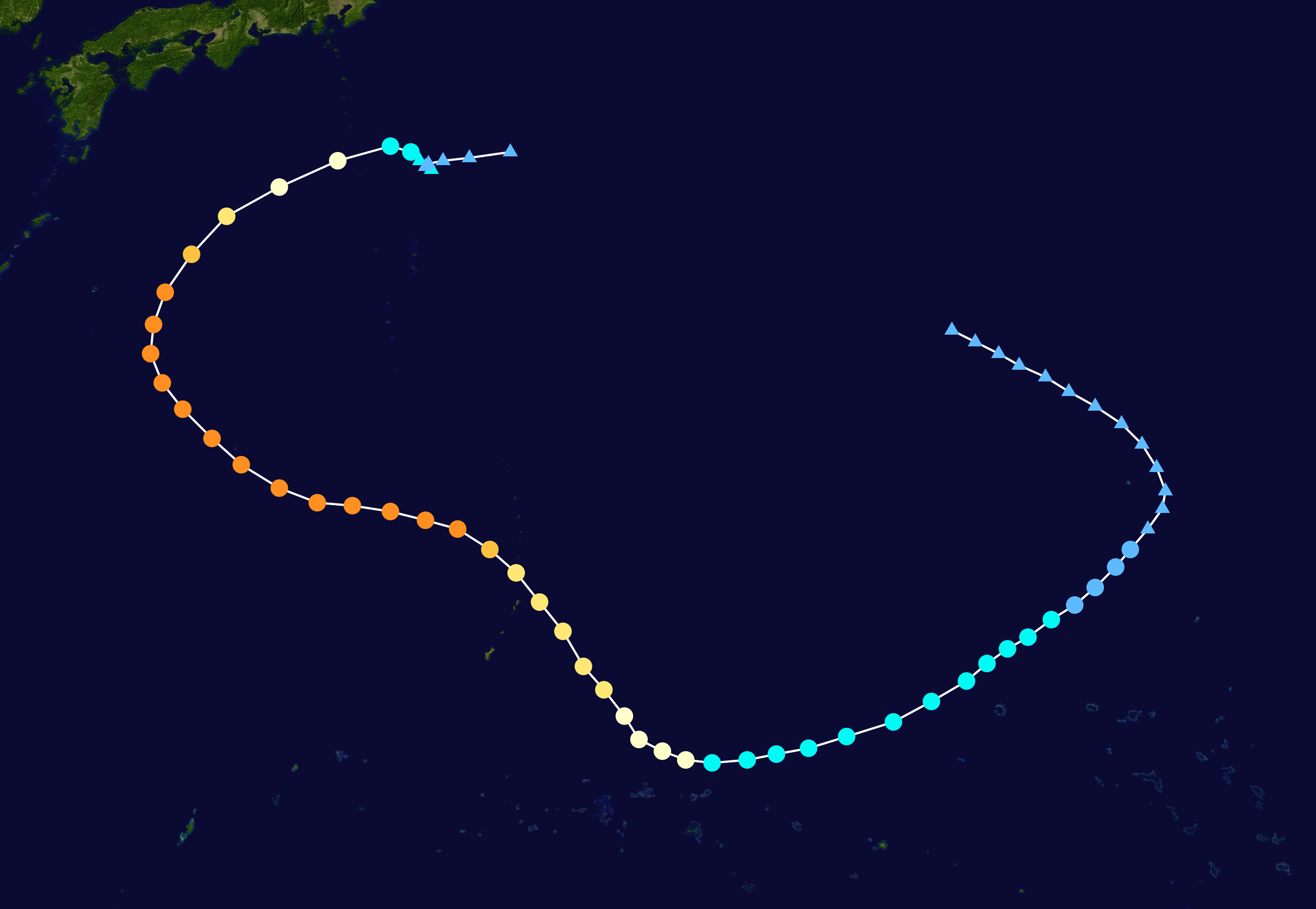 Typhoon Zelda 1994 track. Uses the color scheme from the Saffir-Simpson Hurricane Scale.